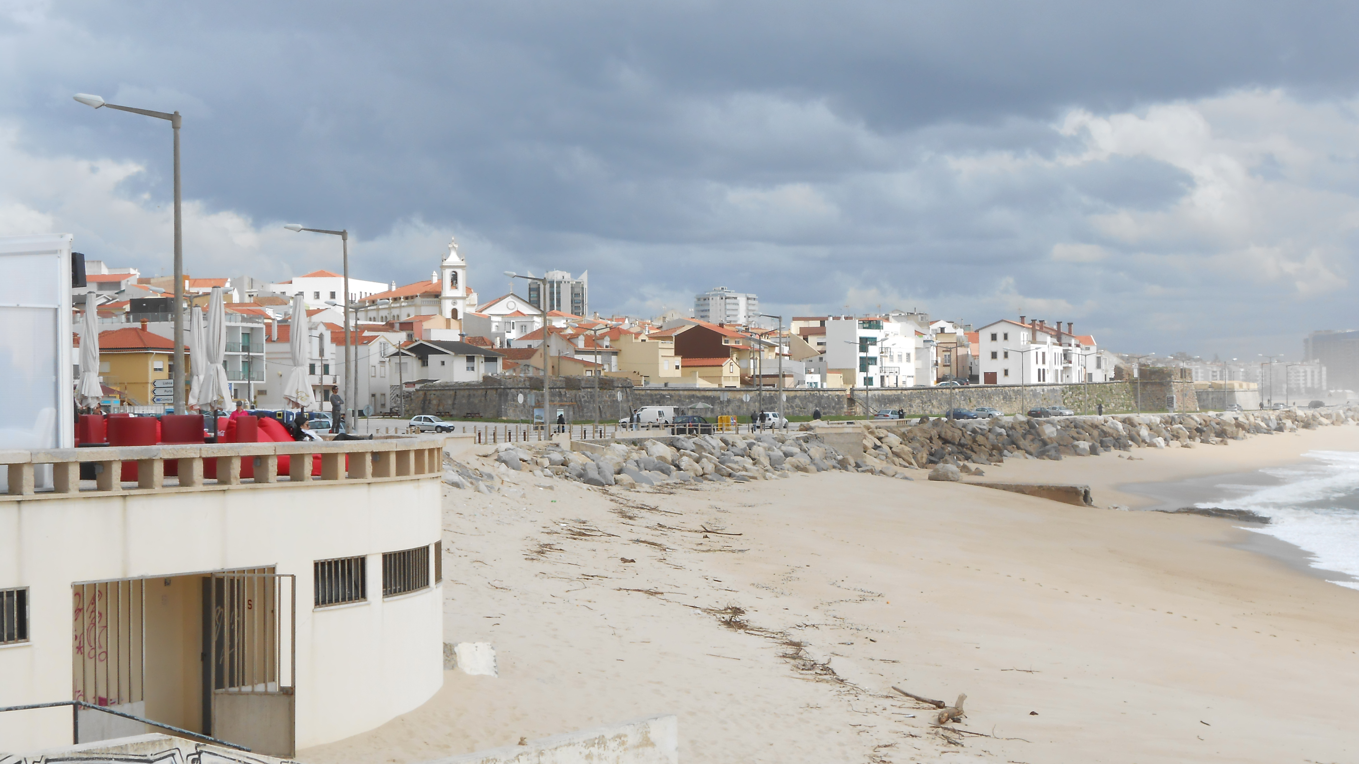 Buarcos, view from its beach